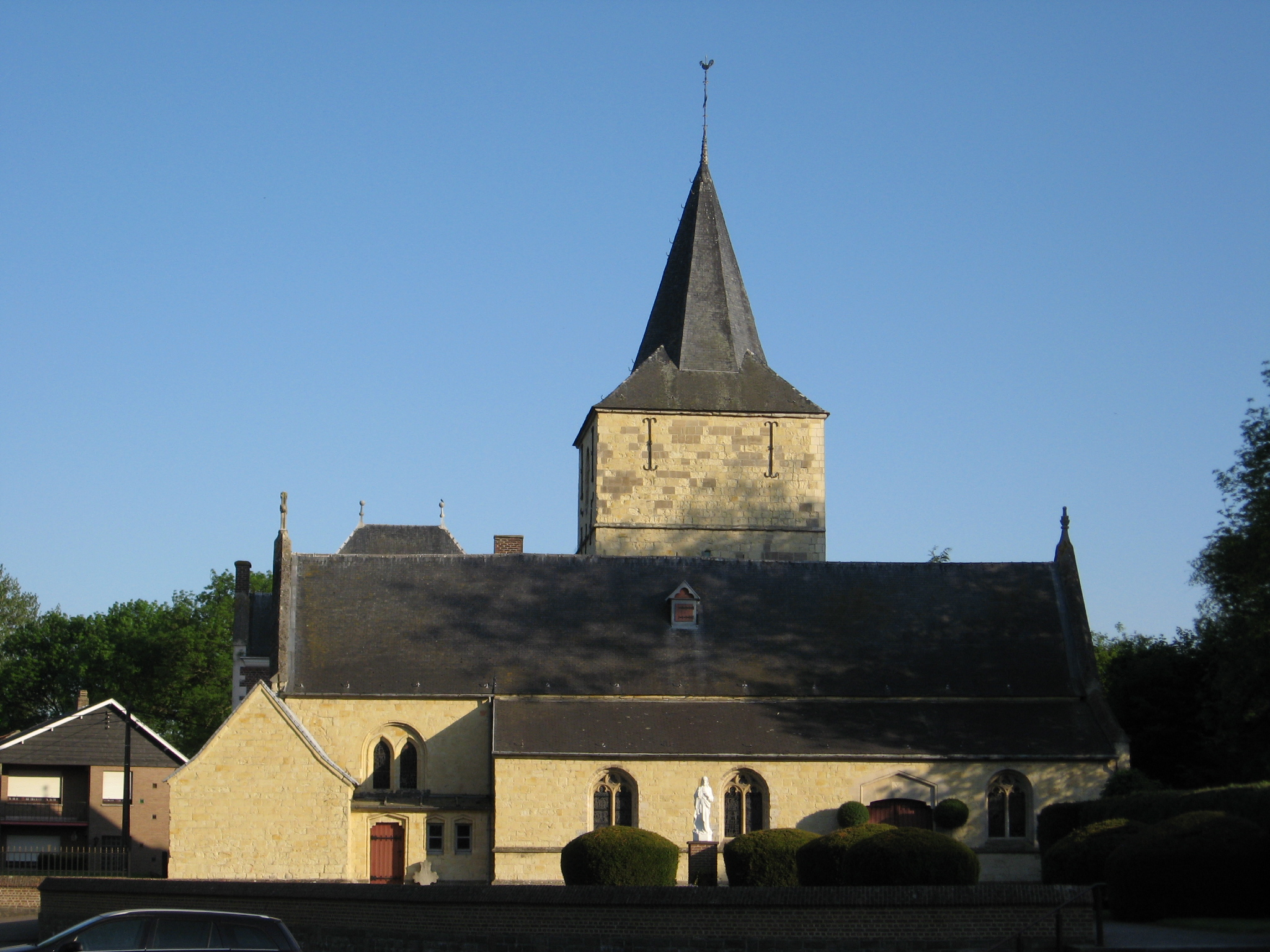 Church of Saint John the Baptiser in Walsbets, Landen, Flemish Brabant, Belgium